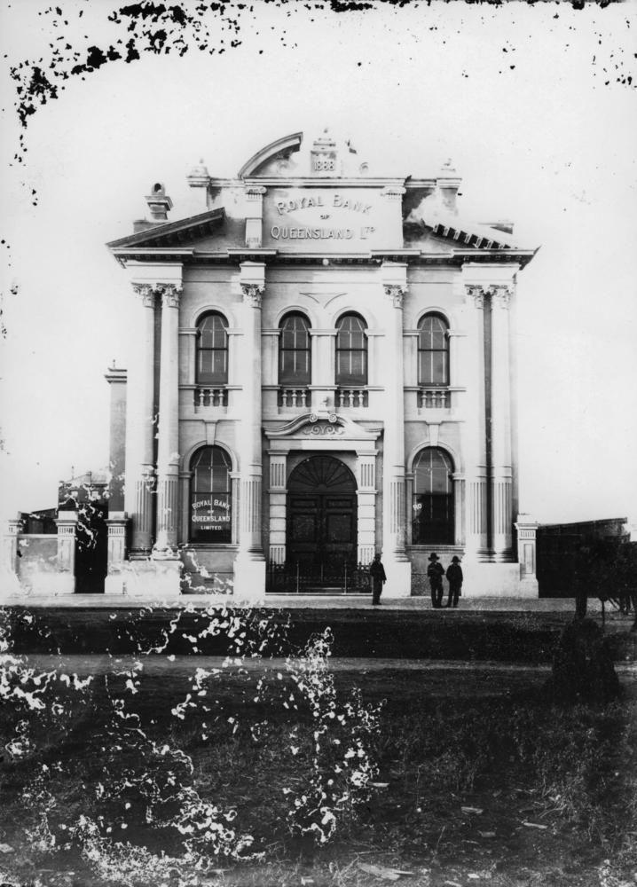 Maryborough branch of the Royal Bank of Queensland Neo-classical building almost completed.